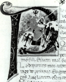 From BNF 854, folio 142v. William IX of Aquitaine in a 13th-century chansonnier.